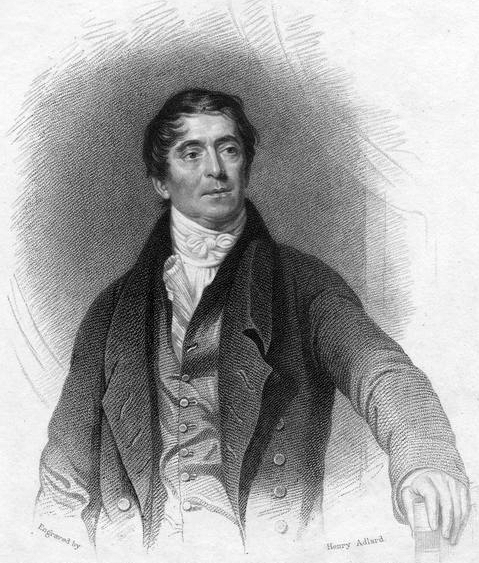 George Birkbeck (1776-1841), president of the London Mechanics Institution, president of the Medical Chirurgical Society of London, founder of Birkbeck College, University of London.